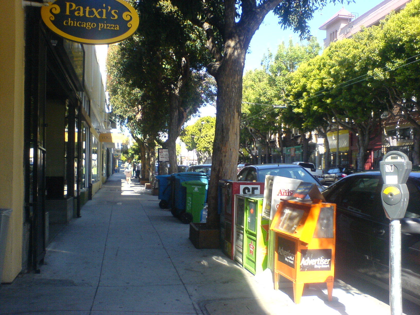 From